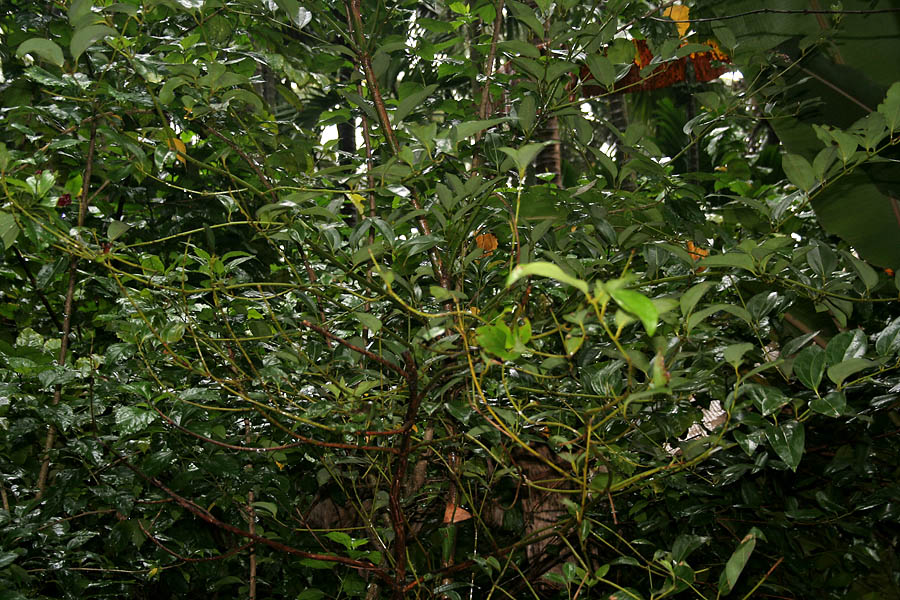 Cinnamomum tamala ((Syn. Cinnamomum tejpata, Laurus tamala)- Indian Bay Leaf, Indian cassia, Indian cassia bark, Tamala cassia • Hindi: तेजपत्ता tejpatta • Manipuri: তেজপাত Tejpat • Tamil: தாளிசபத்திரி Talishappattiri • Malayalam: തമാലപത്രമ് Tamalapatram • Telugu: Talisapatri, Talisha, Patta akulu • Kannada: Patraka • Bengali: তেজপাত Tejpat • Urdu: तेज़पात Tezpat • Assamese: Mahpat, তেজপাত Tejpat • Gujarati: તમાલપત્ર Tamaal patra • Sanskrit: तमालपत्र tamalapattra- in Goa, India.